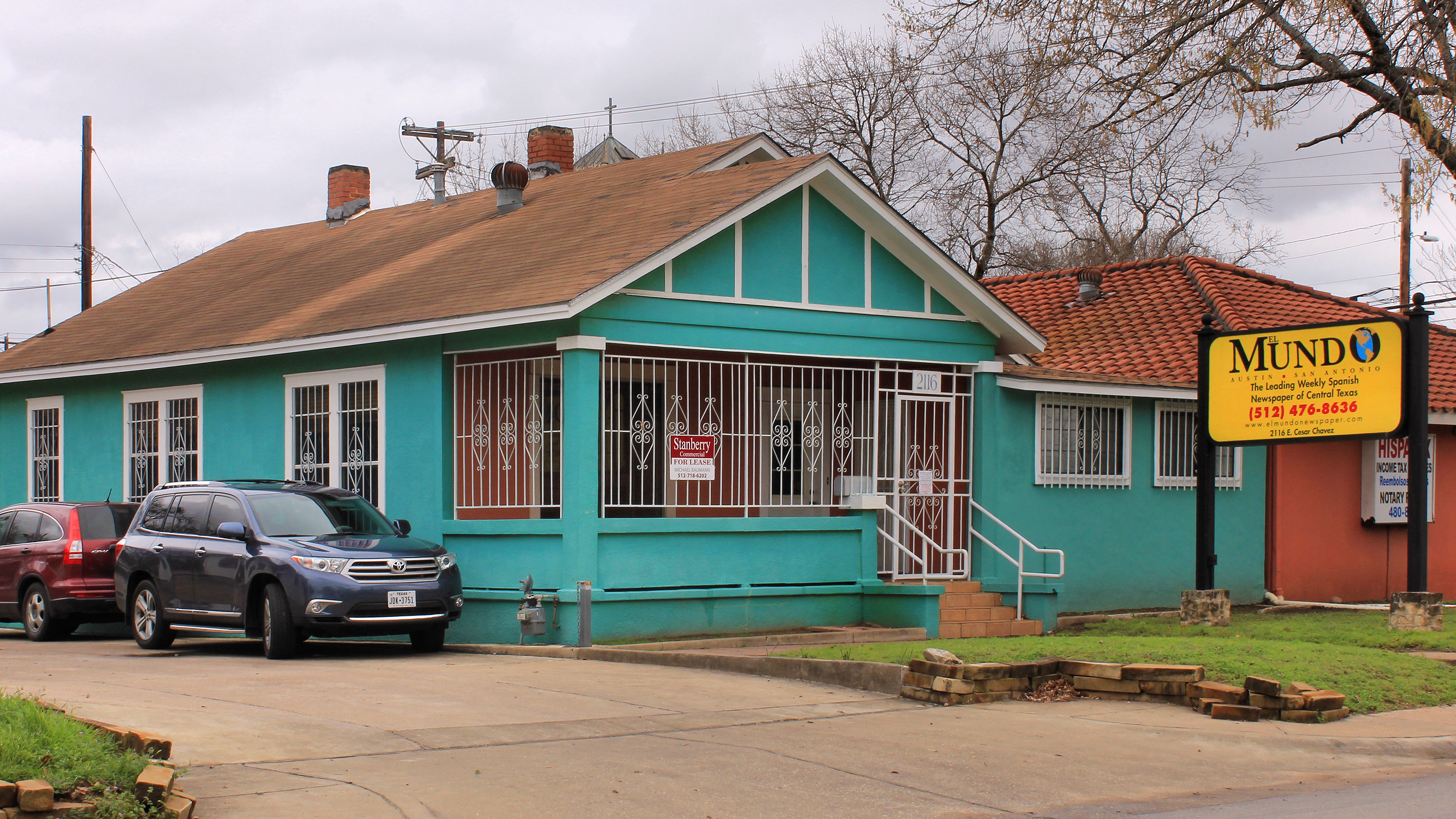 The current Austin headquarters of El Mundo, a Spanish language newspaper distributed in Austin and San Antonio, Texas, United States. The building is located at 2172 East Cesar Chavez St in Austin.